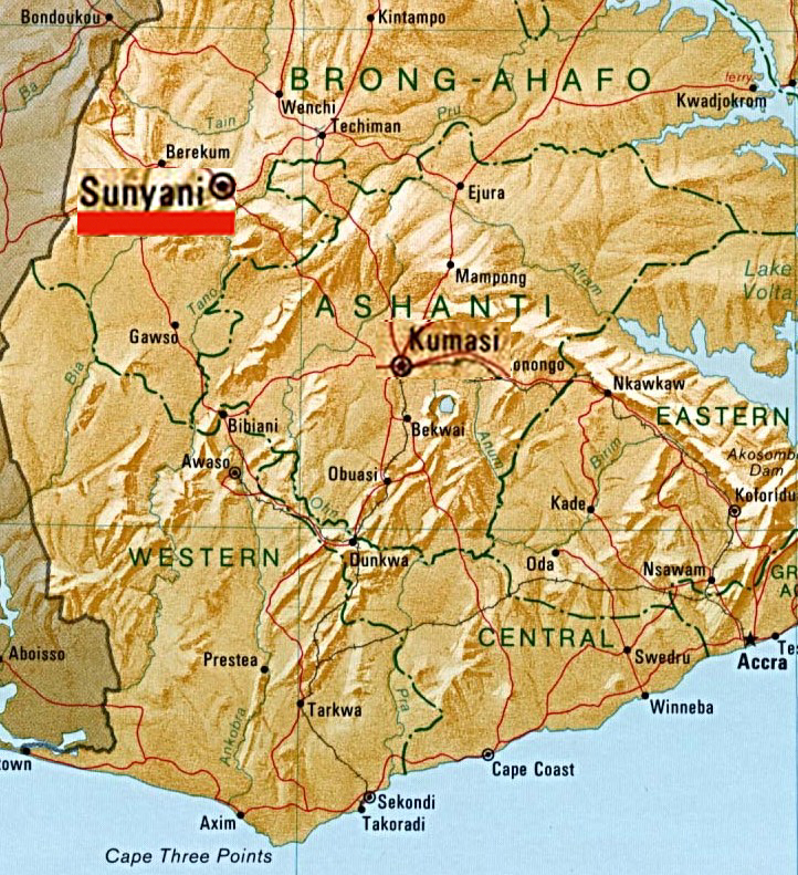 Map showing the Geographical location of Sunyani, Capital of the Brong Ahafo Region in the west African country of Ghana.